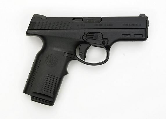 Steyr M9 semi-automatic pistol.